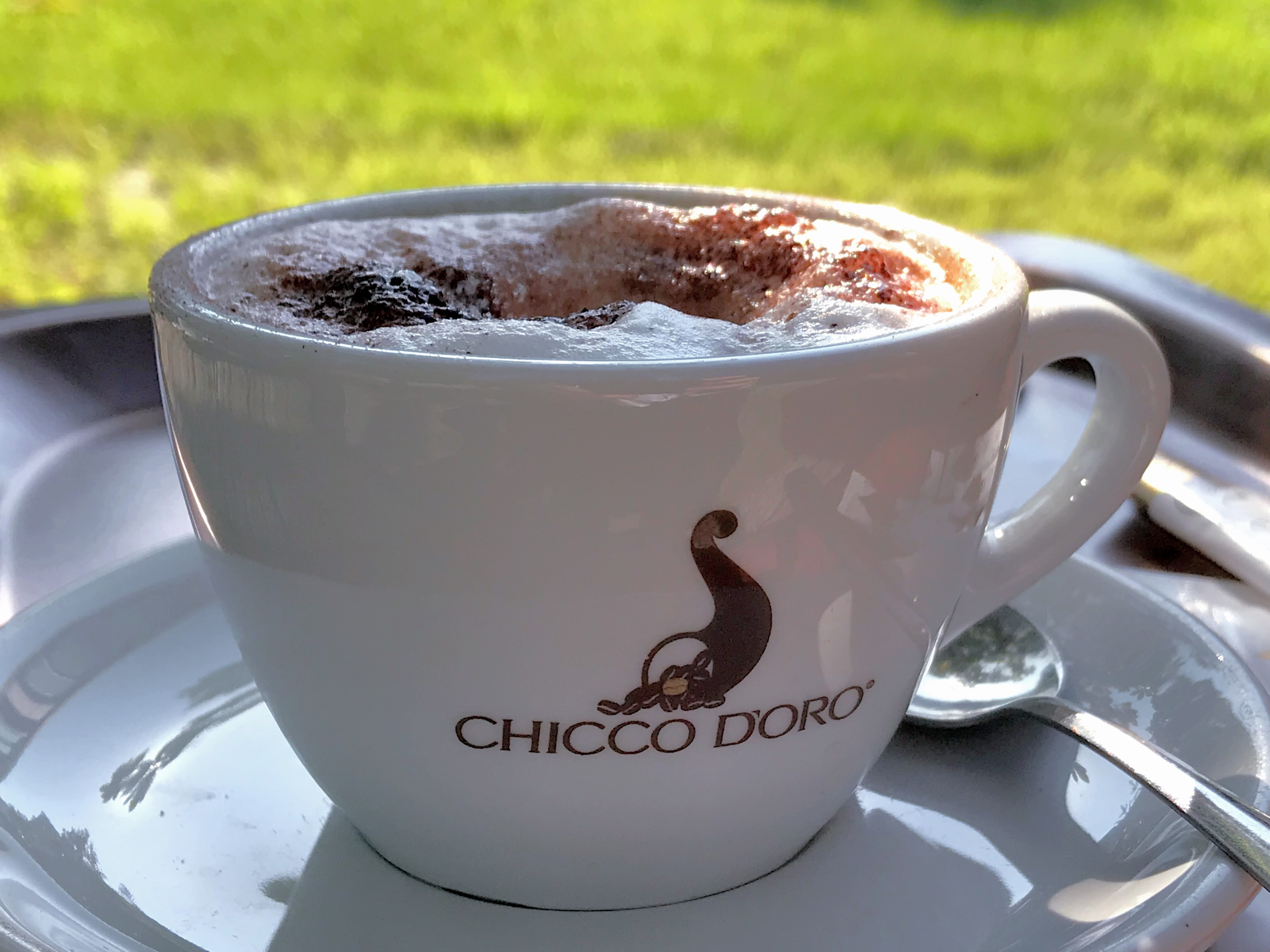 Cappuccino coffee